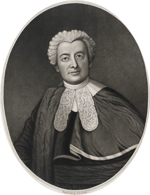 Sir James Dowling (1787-1844) was a Chief Justice of the Supreme Court of New South Wales.